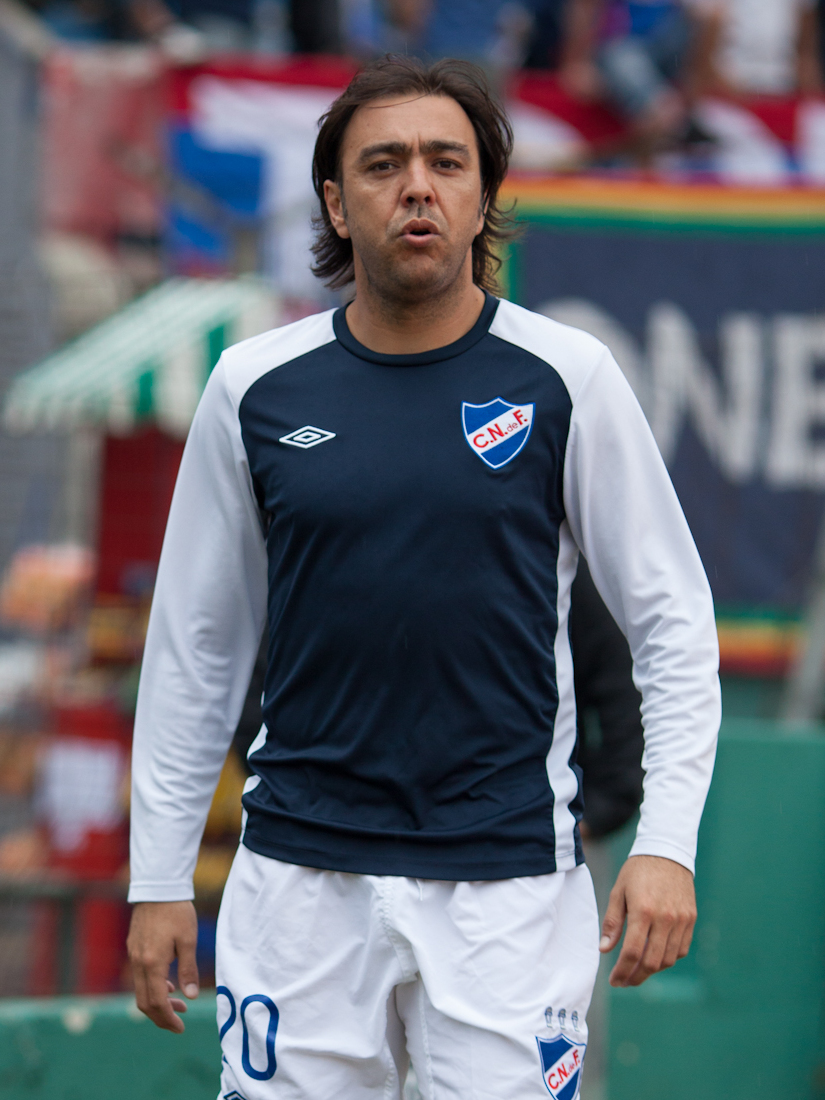 Álvaro Recoba playing for Nacional.